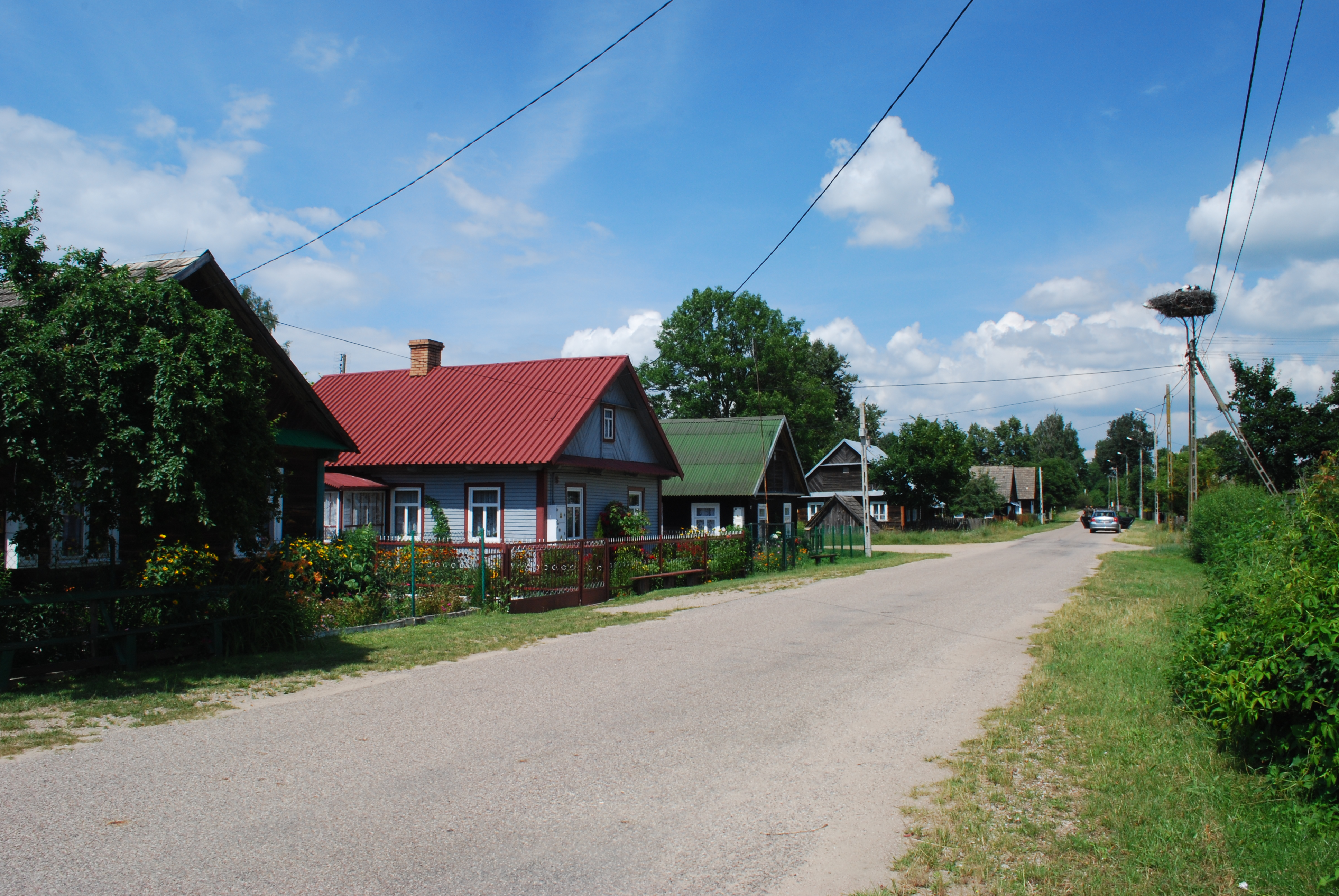 This photo from Podlaskie Voievodeship was taken during Polish Wikiexpedition 2009 set up by Wikimedia Polska Association. The making of this document was supported by Wikimedia Polska. Cisówka, województwo podlaskie.